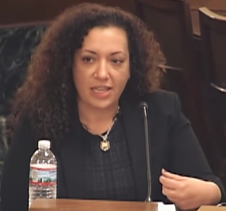 The Homeland Security Committee hosts a roundtable discussion entitled “Women and Terrorism”. Ms. Hannah Allam, Foreign Affairs Correspondent for the Washington bureau of McClatchy Newspapers.